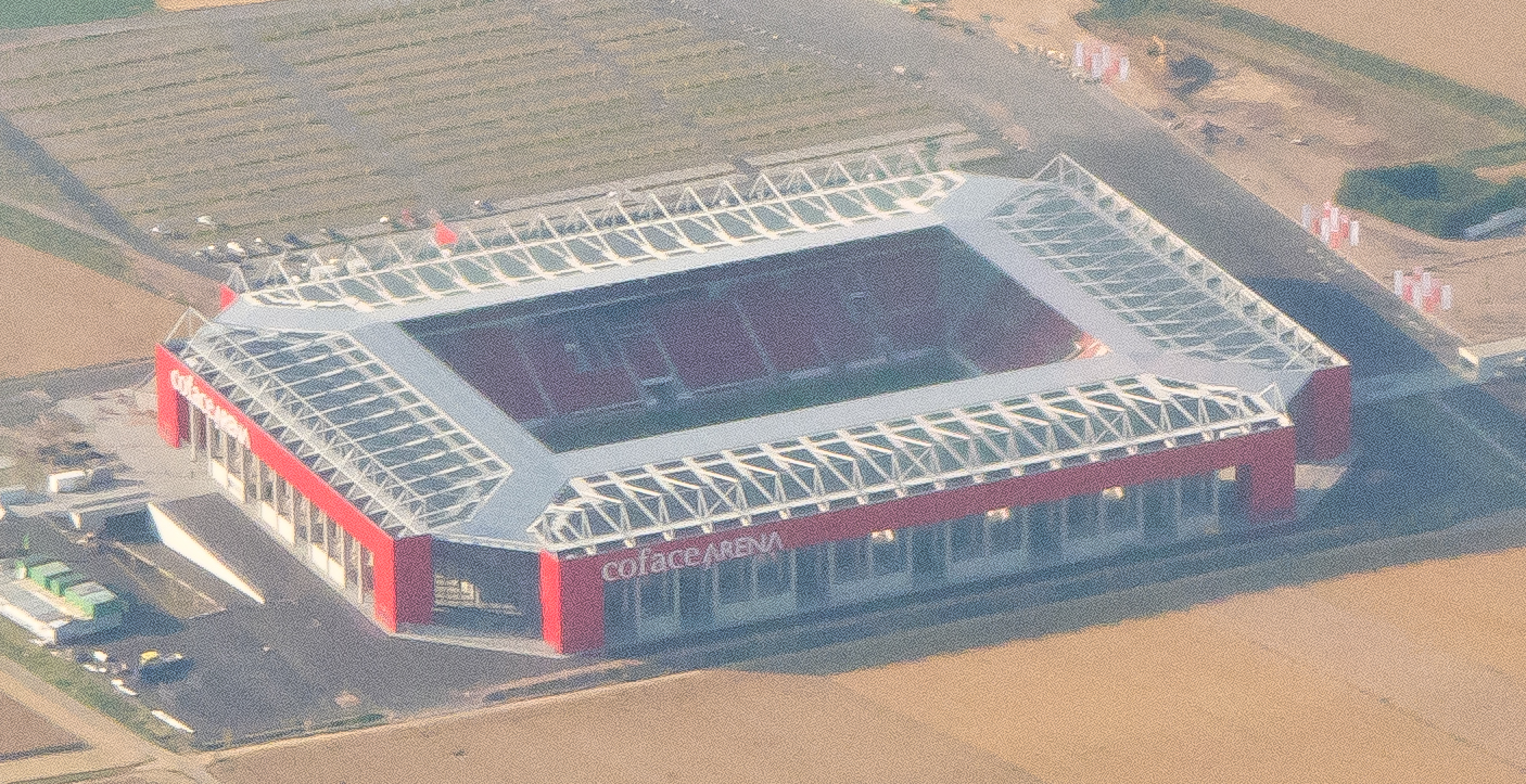 Aerial photograph of the Coface Arena, Germany.